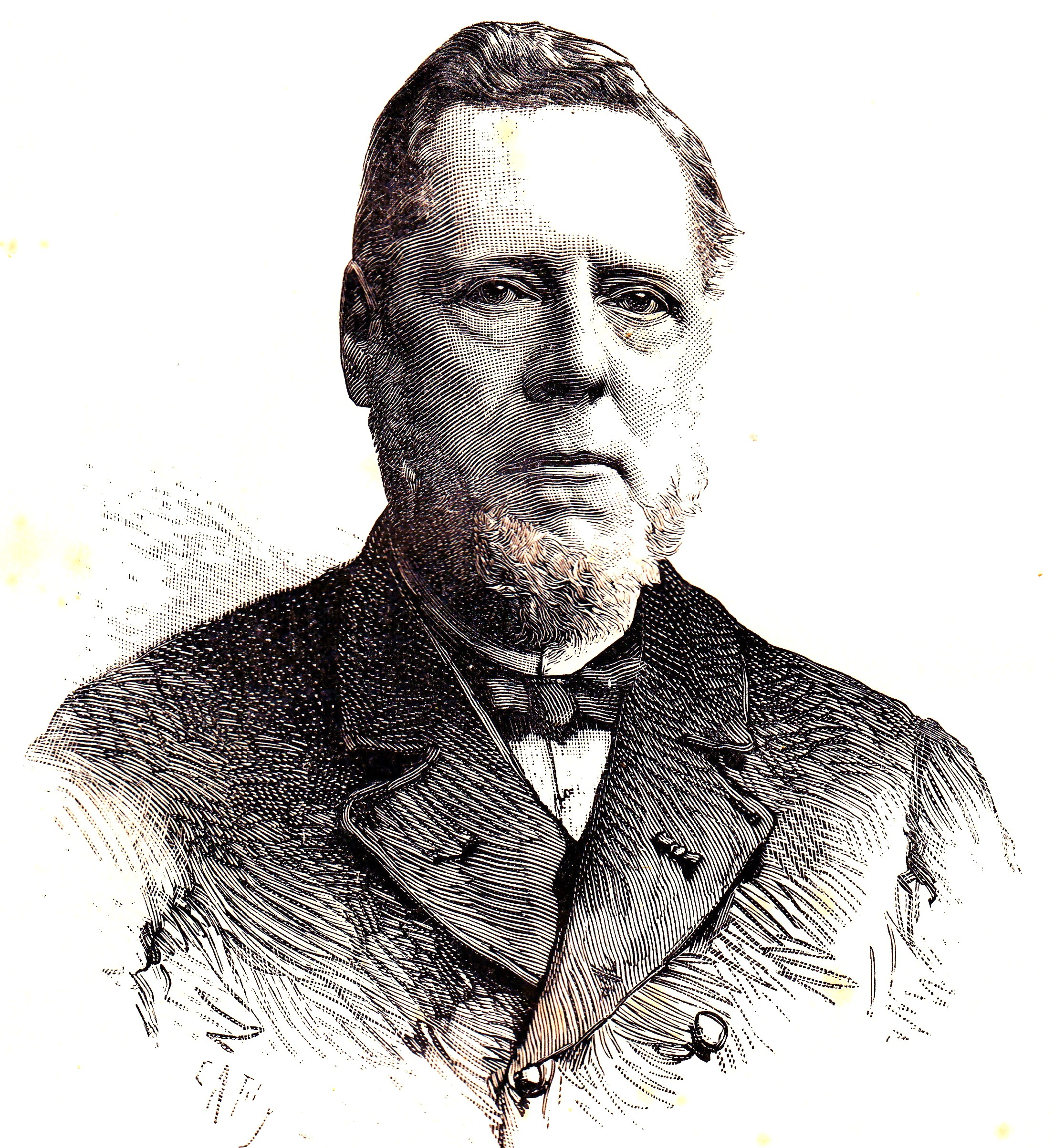 Dr. L.W.E. Rauwenhoff